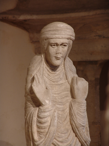 St. Mary Magdalene, sculpture from the old tomb of Saint Lazarus at Autun Cathedral, now at the Rolin Museum